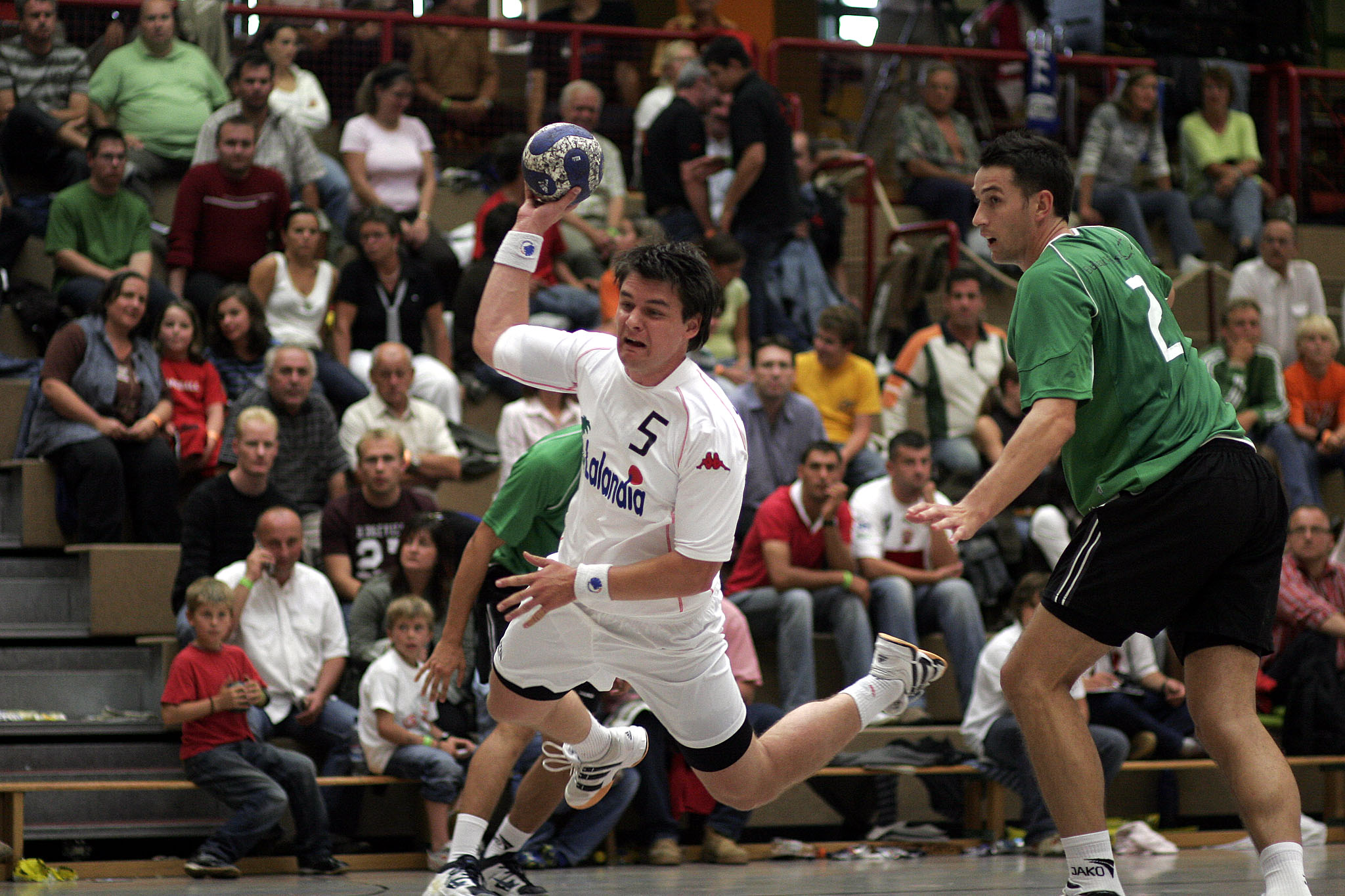 Arnor Atlason, handball player from Iceland, during the Schlecker Cup 2007 in Ehingen (Germany)